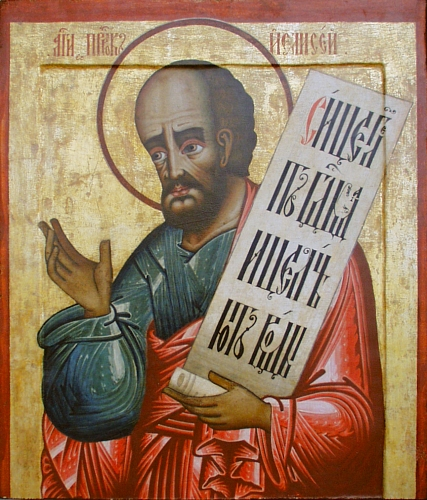 Prophet Elisha, Russian icon from first quarter of 18th cen.